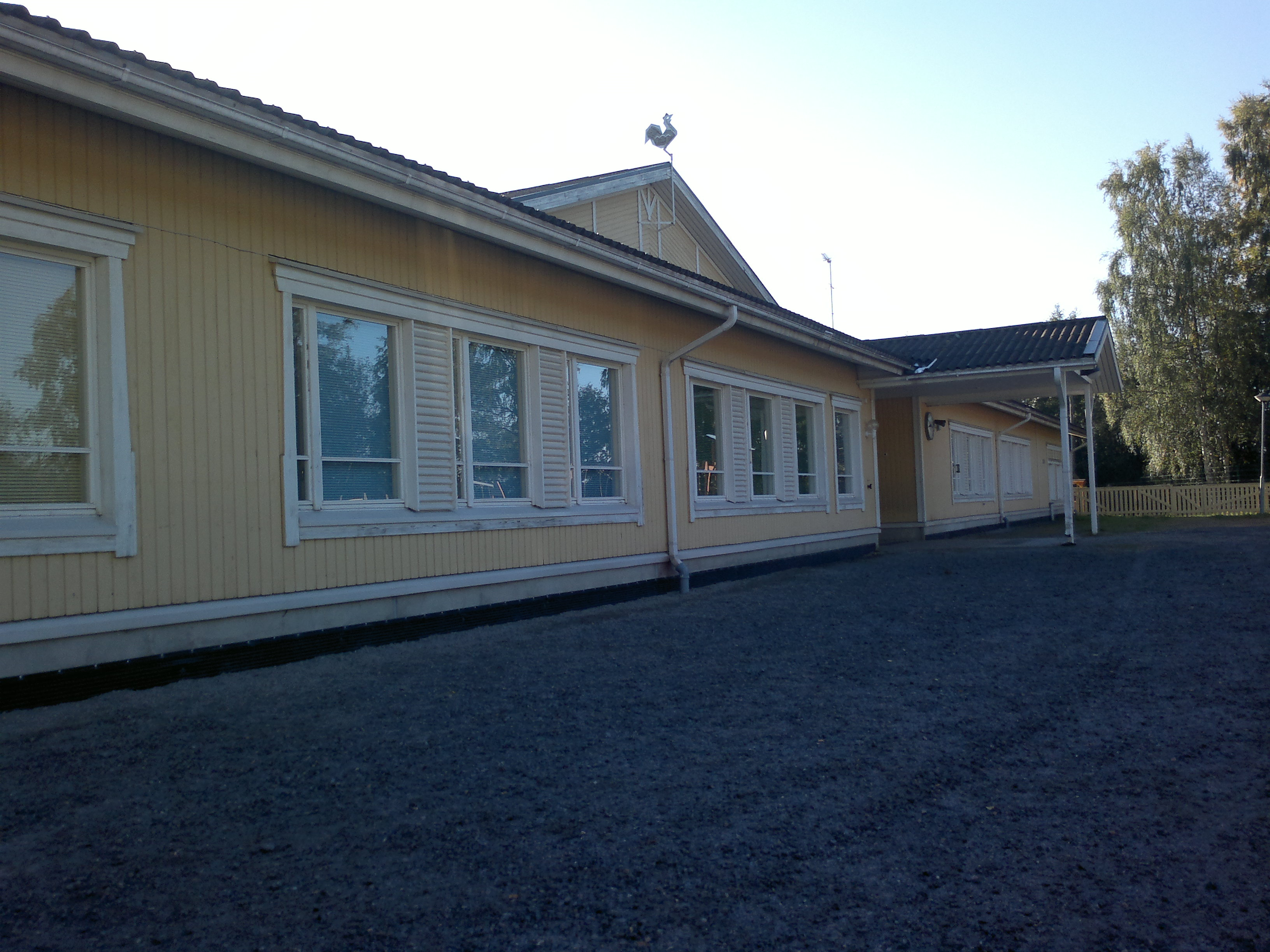 School of Ylijoki, in Ylijoki, Kuortane, Finland